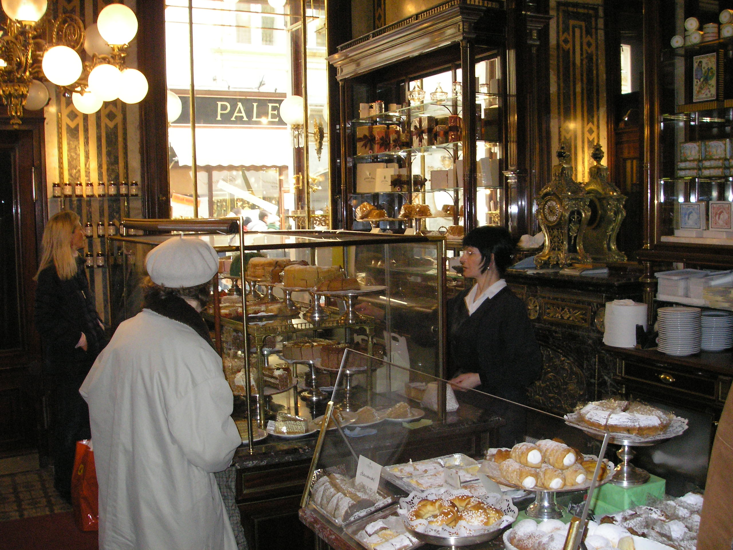 Description: Interior view of the Café Demel in Vienna. Source: self-made, I release it into the public domain. Gryffindor 22:23, 23 March 2006 (UTC)